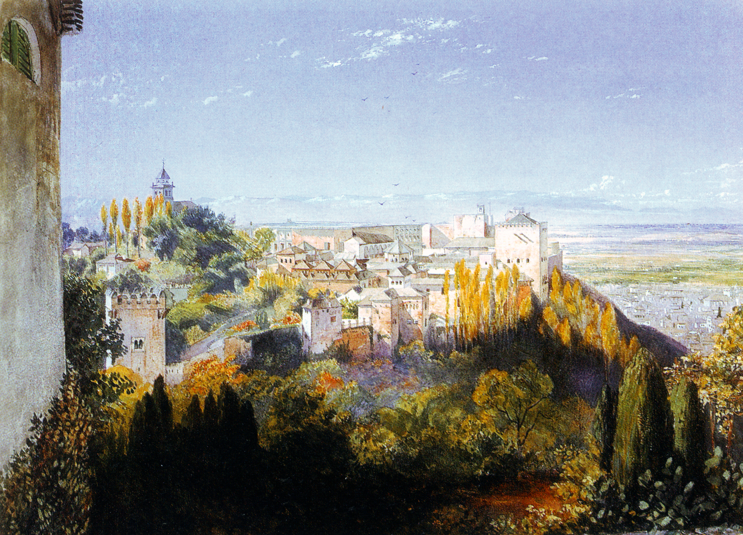 Albaicin from the Alhambra